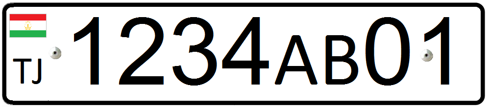 Tajik new license plate design for private automobiles